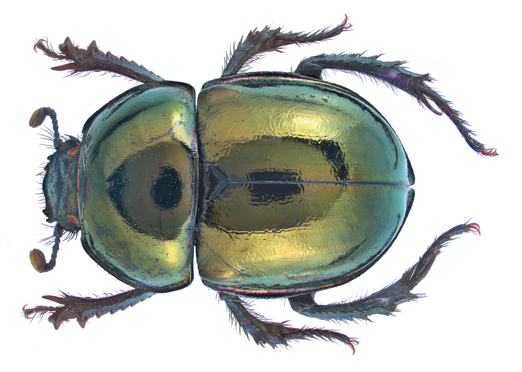 Family: Geotrupidae Size: 16,7 mm (12 to 22 mm) Origin: Europe, Asia Minor, Iran Ecology: the beetles feed on feces, brood care Location: Switzerland, Tessin, Val Verzasca leg.det. U.Schmidt, 23.IX.1971 Photo: U.Schmidt, 2015